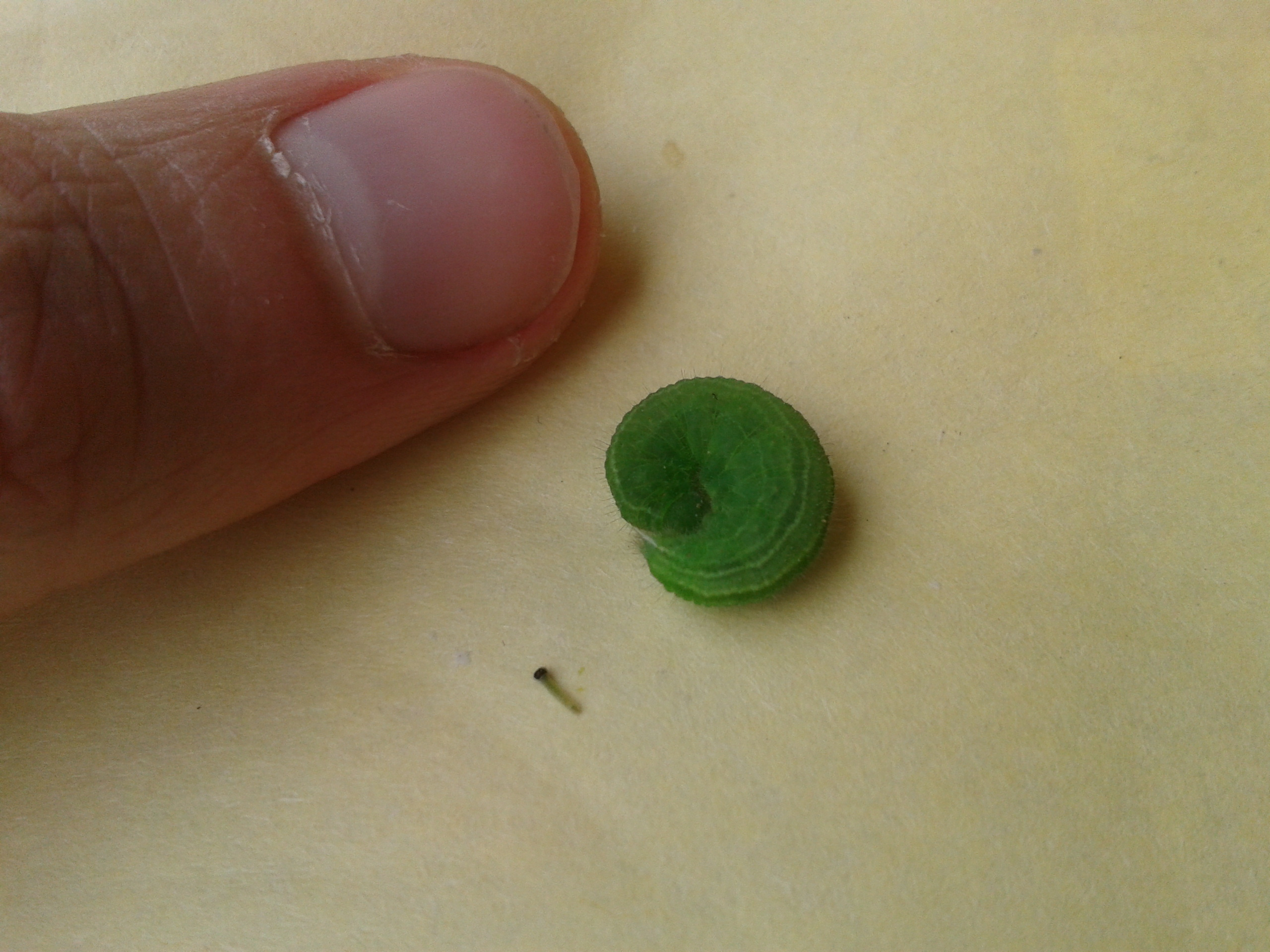 First-instar and fourth-instar caterpillars of speckled wood butterfly (Pararge aegeria) next to a human finger for scale. Stockholm, Sweden, 2015.